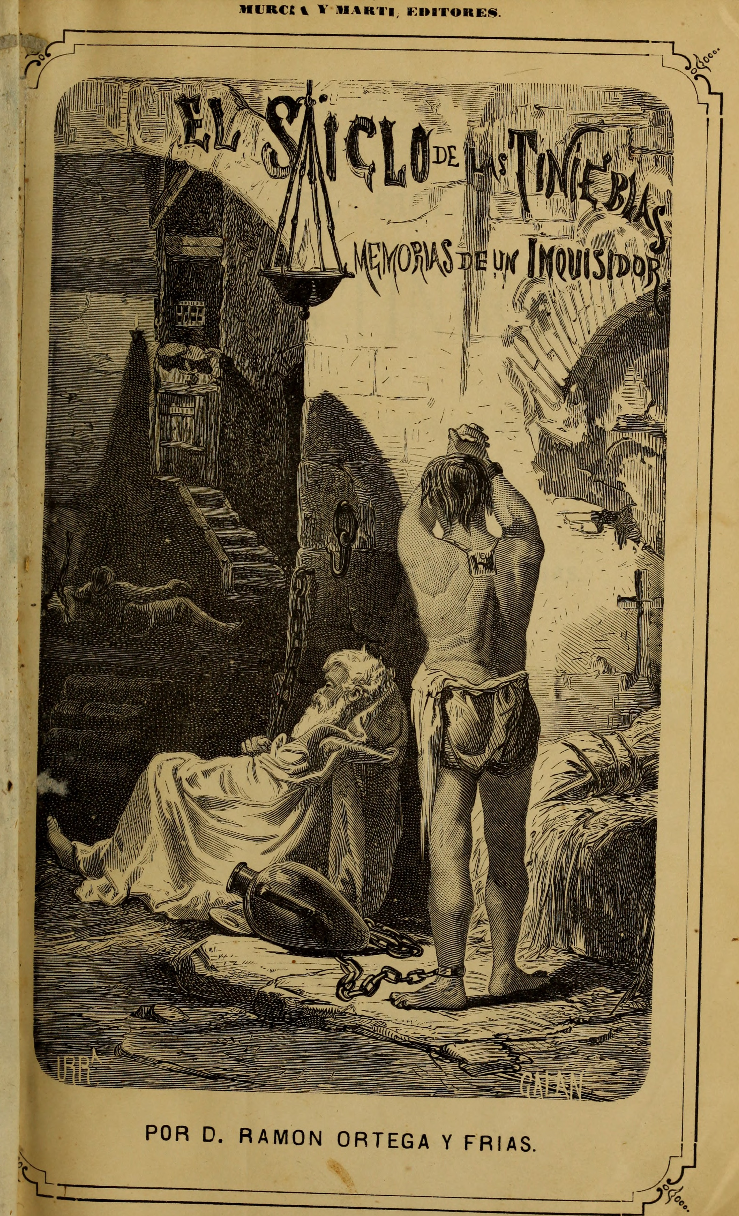 Title: El siglo de las tinieblas, o memorias de un inquisidor; novela histórica original Year: 1868 (1860s) Authors: Ortega y Frías, Ramón, 1825-1883 Subjects: Publisher: Madrid, Galería Text Appearing Before Image: ' Text Appearing After Image: GALERIA LITERARIA.—MURCIA Y MARTI, EDITORES. EL SIGLO DE LAS TINIEBLAS ó MEMORIAS DE UN INQUISIDOR. Novela histórica originalDE D. RAMON ORTEGA Y FRIAS. TOMO 11.elsiglodelastini02orte